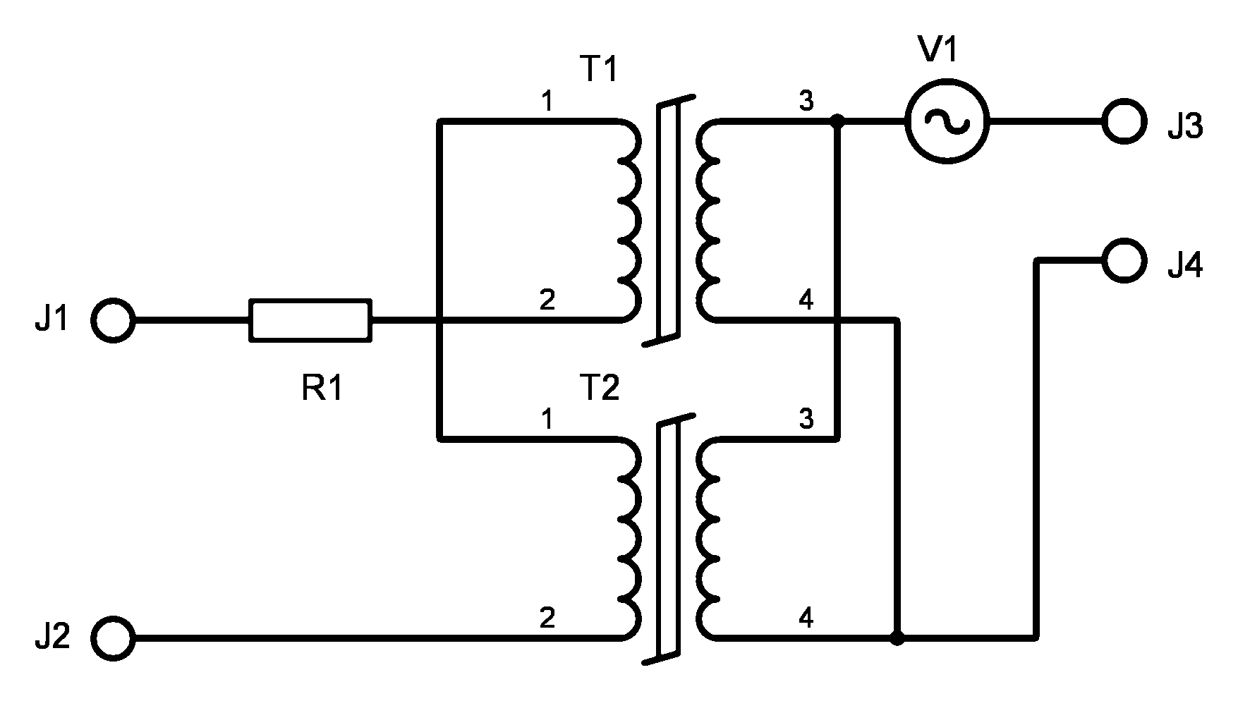 Parallel connected transductor, i.e. pair of identical transductor cores with identical, parallel connected load windings. This is one of the basic magnetic amplifier circuits.